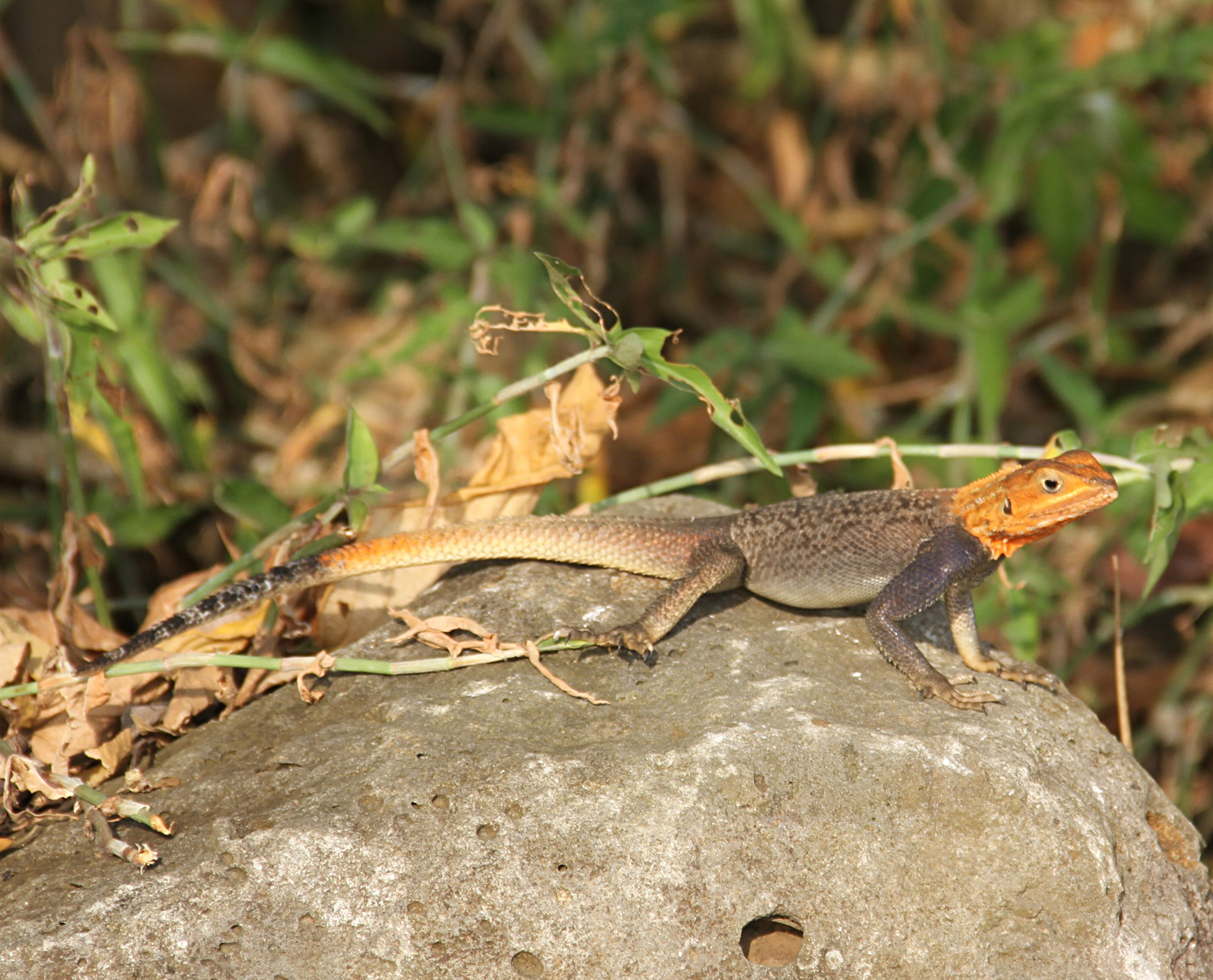 Agama lebretoni, male in a typical more subadult or dull coloration, coastal near Sipopo, Bioko The making of this document was supported by the Community-Budget of Wikimedia Germany.